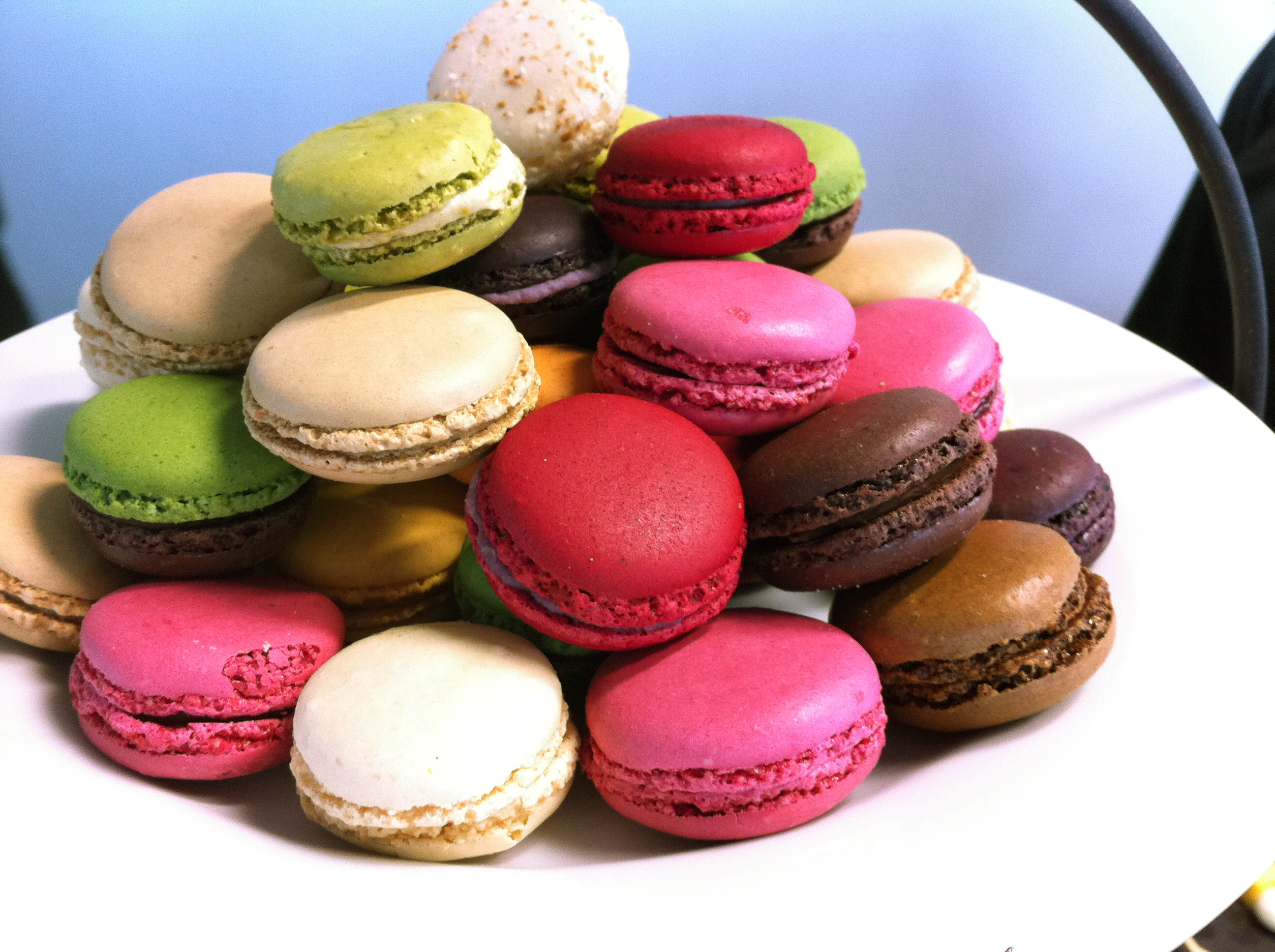 Macarons, French made mini cakes